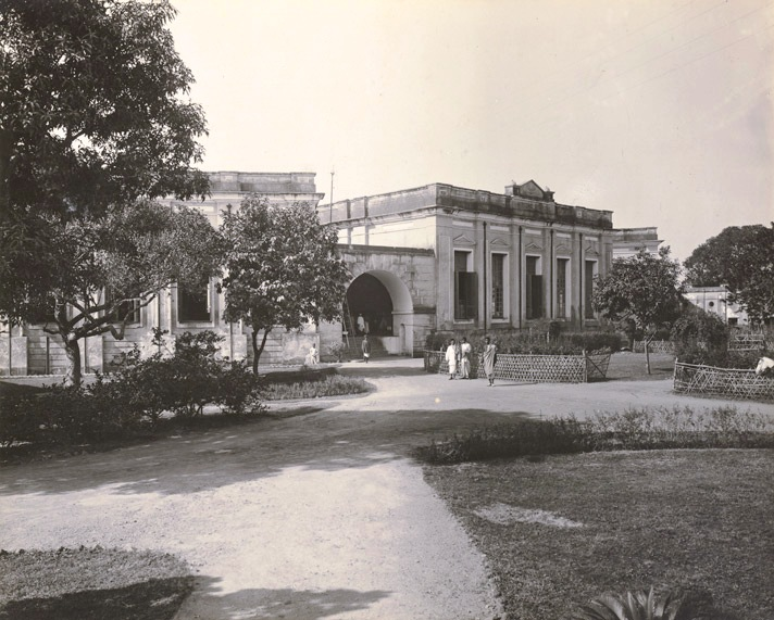 Photograph taken by Fritz Kapp in 1904, with a general view of the Mitford Hospital taken from the grounds, in Dacca (now Dhaka), part of an album of 30 prints from the Curzon Collection. The hospital is one of the largest in Dhaka and is part of the oldest medical institute in the country. It is situated in the old part of the city on the banks of the Buriganga river.